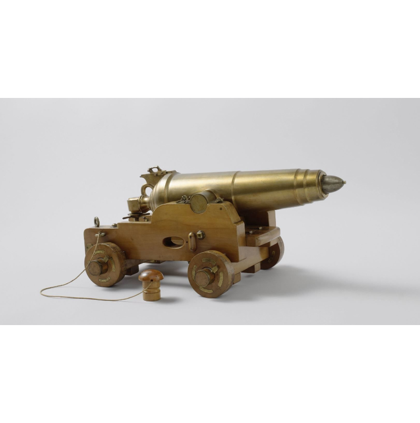 This is a contemporary model made in 1861 of a Dutch rifled gun (getrokken kanon) of 16 cm that was intorduced to the navy in 1862.